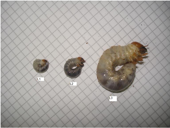 The three larval instars of Lucanus cervus.